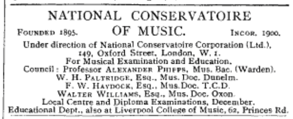 An ad from Musical Times, 1 October 1920, showing the use of the name Liverpool College of Music even though that body had been defunct since 1911.